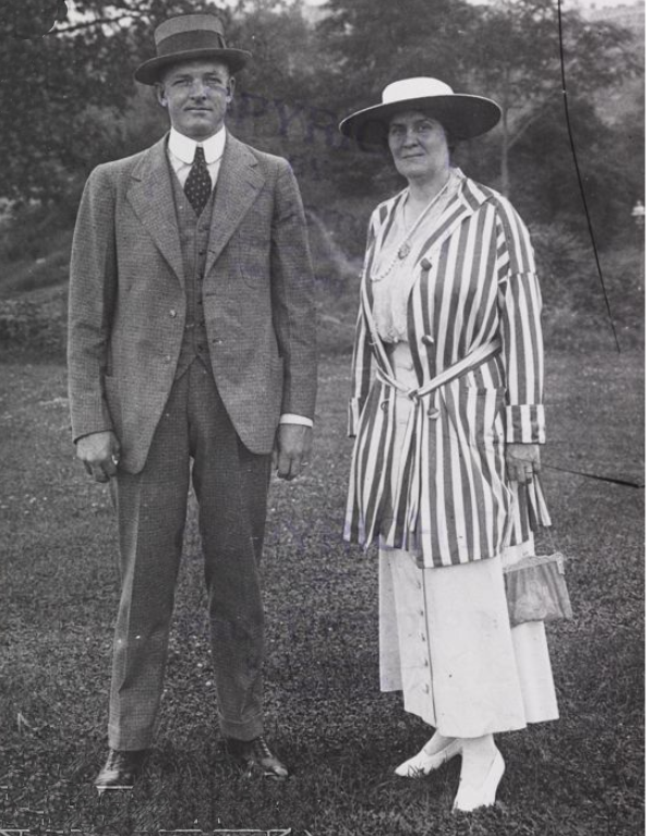 Title Christy and Jane Mathewson photograph, circa 1916 Accession Number BL-316-76 Abstract A black-and-white photograph of Christy Mathewson, dressed in a suit and tie, and his wife, Jane, dressed in a dress and hat. They are standing next to each other in an outdoor setting, looking towards the camera. The inscription on the reverse (not shown) reads, Christy Mathewson Cincinnati National League Baseball Club, Cincinnati." Based on Mathewson's time with Cincinnati, this photograph was probably taken around 1916. Date Created 1916 Associated Names Thompson, Paul (Photographer) (Photographer) Subject—Person (Players) Mathewson, Christy, 1880-1925 Subject—Person (Non-Players) Mathewson, Jane, 1880-1967 Subject – Genre black-and-white photographs photographic materials still image Media Type unmediated Carrier Type unspecified Dimensions (standard) 6.25 x 8.25 in. Physical Location Photo Archives Sublocation BA PHT 012 Hall of Famers photographic materials Shelf Location Box 3, Folder 5 Copyright Note The National Baseball Hall of Fame and Museum is not aware of any U.S. copyright or any other restrictions in the documents. NBHoF welcomes you to use materials in our collections that are in the public domain and to make fair use of copyrighted materials as defined by copyright law and with proper citation. If you have more information about material on our websites, or if you are the copyright holder and believe our websites have not properly attributed your work or have used it without permission, please with your contact information and a link to the relevant content. Detailed rights information is available at